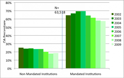 Comparing Unmandated and Mandated Green OA Self-Archiving